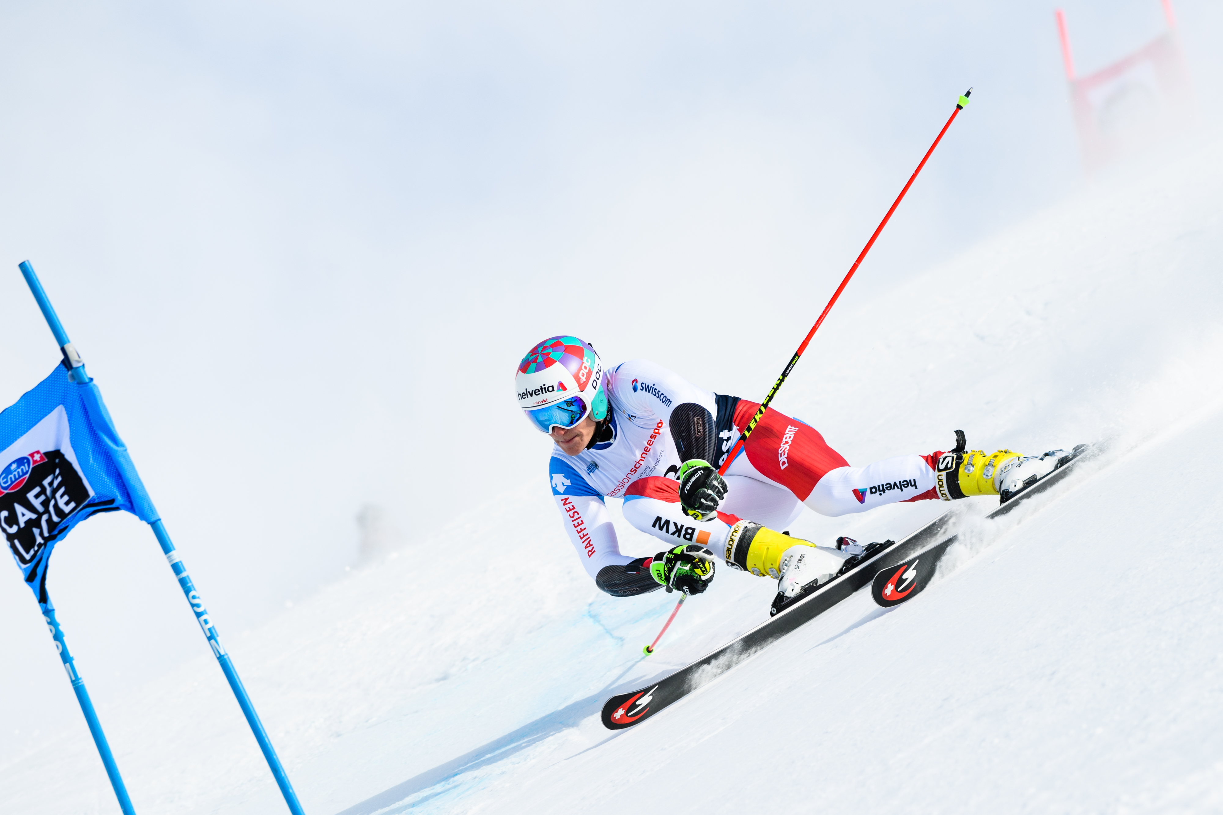 Marco Odermatt (Switzerland), winner of the giant slalom at the 2018 FIS Junior World Ski Championships in Davos, Switzerland. (Photo: Manuel Lopez)